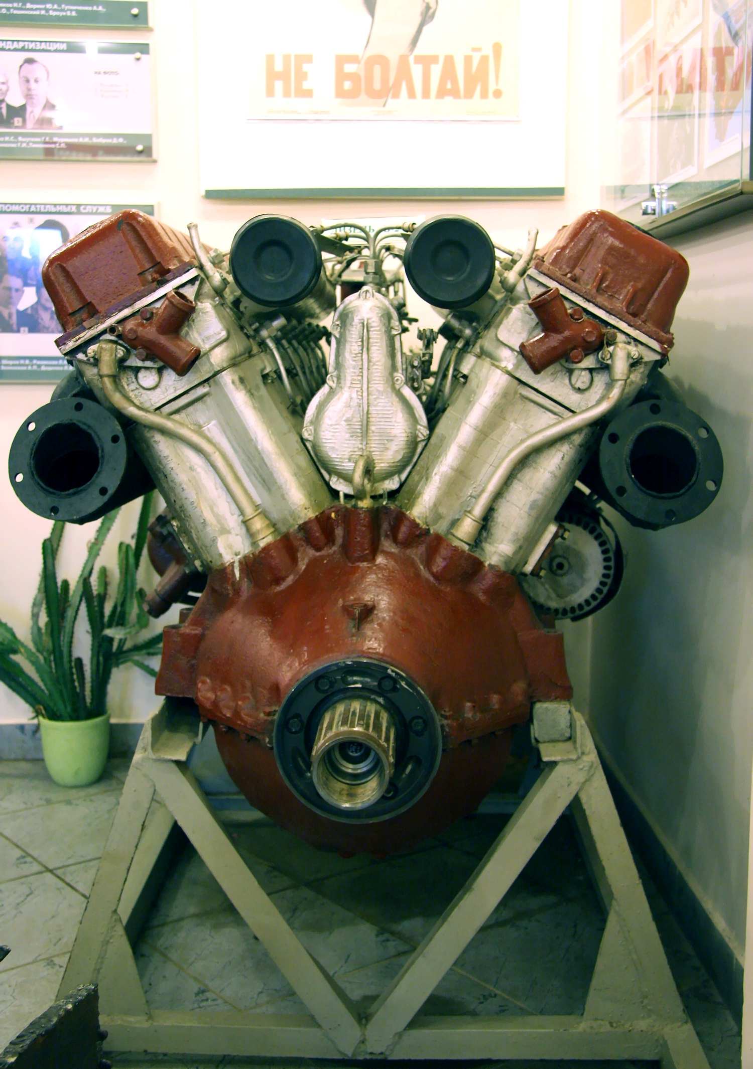 Diesel model V-2 of a T-34 tank.